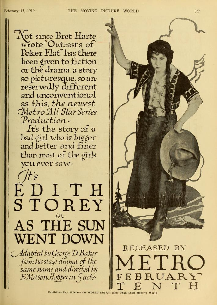 Advertisement in Moving Picture World